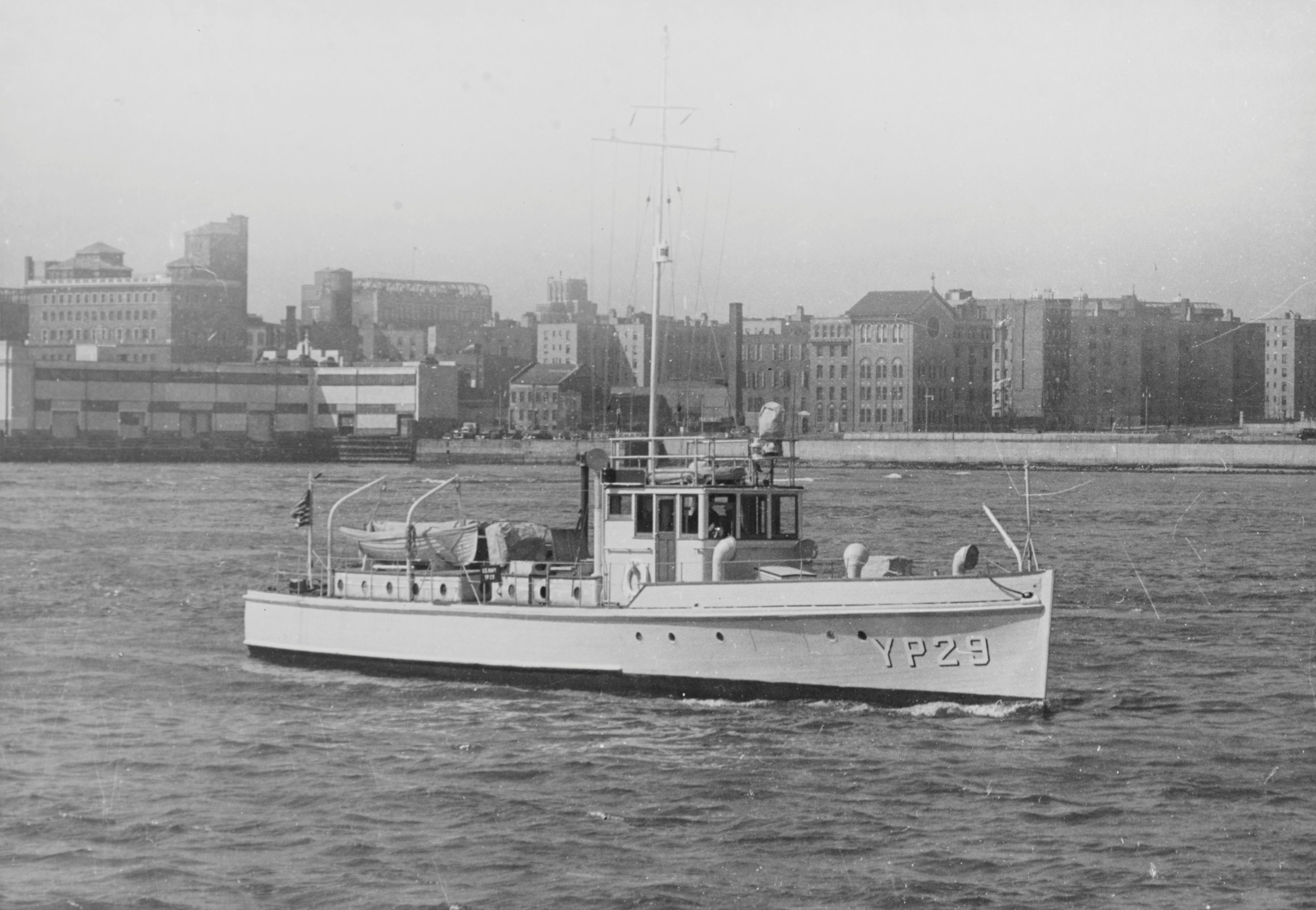 Off New York Navy Yard. She was formerly the coast guard boat CG-116.